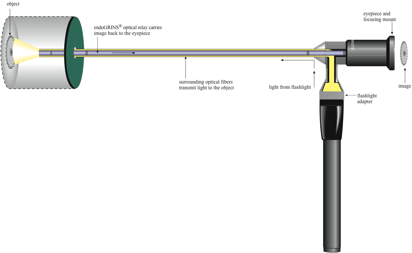 Schematic of a Hawkeye Borescope